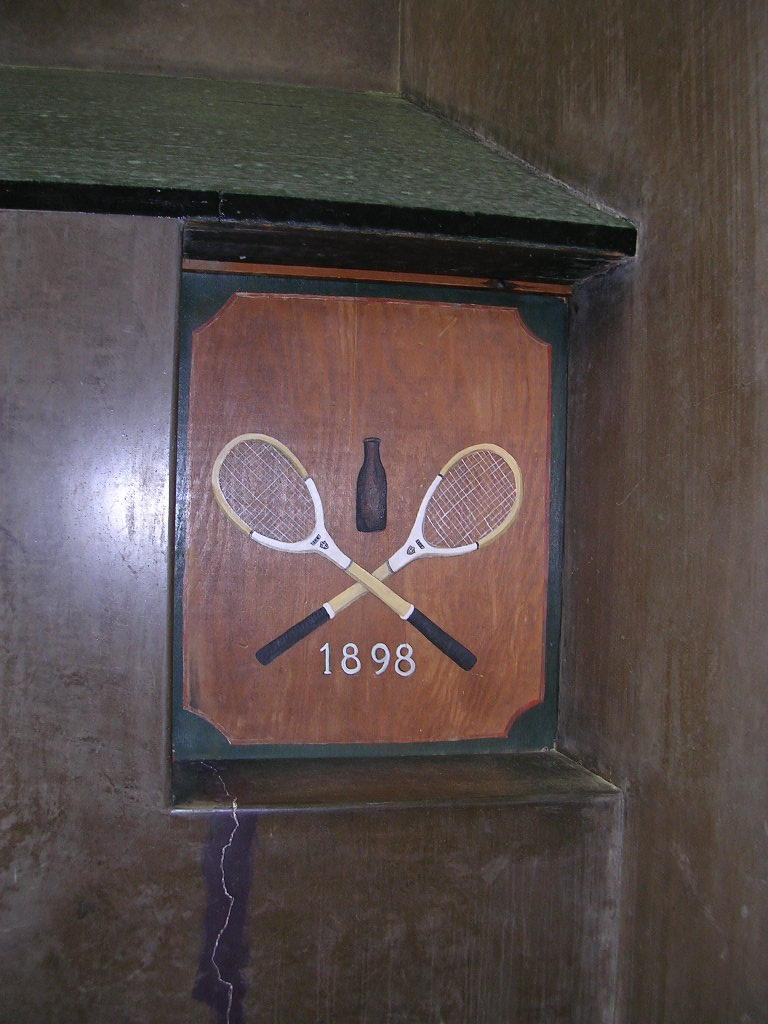 Detail of the grille in the Aiken Tennis Club constructed in 1902 at 146 Newberry Street, SW in Aiken, South Carolina, USA. 33°33′34″N 81°43′16″W / 33.55944°N 81.72111°W